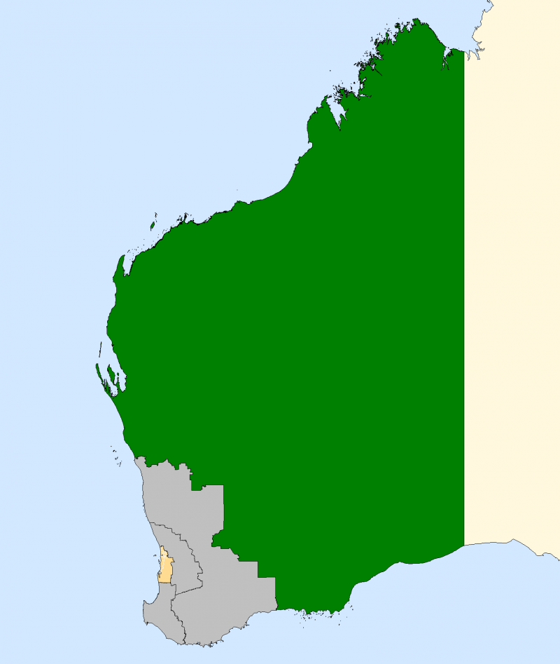 This image incorporates data that is: © Commonwealth of Australia (Australian Electoral Commission) 2009 Division of Kalgoorlie 2007, based on official AEC data